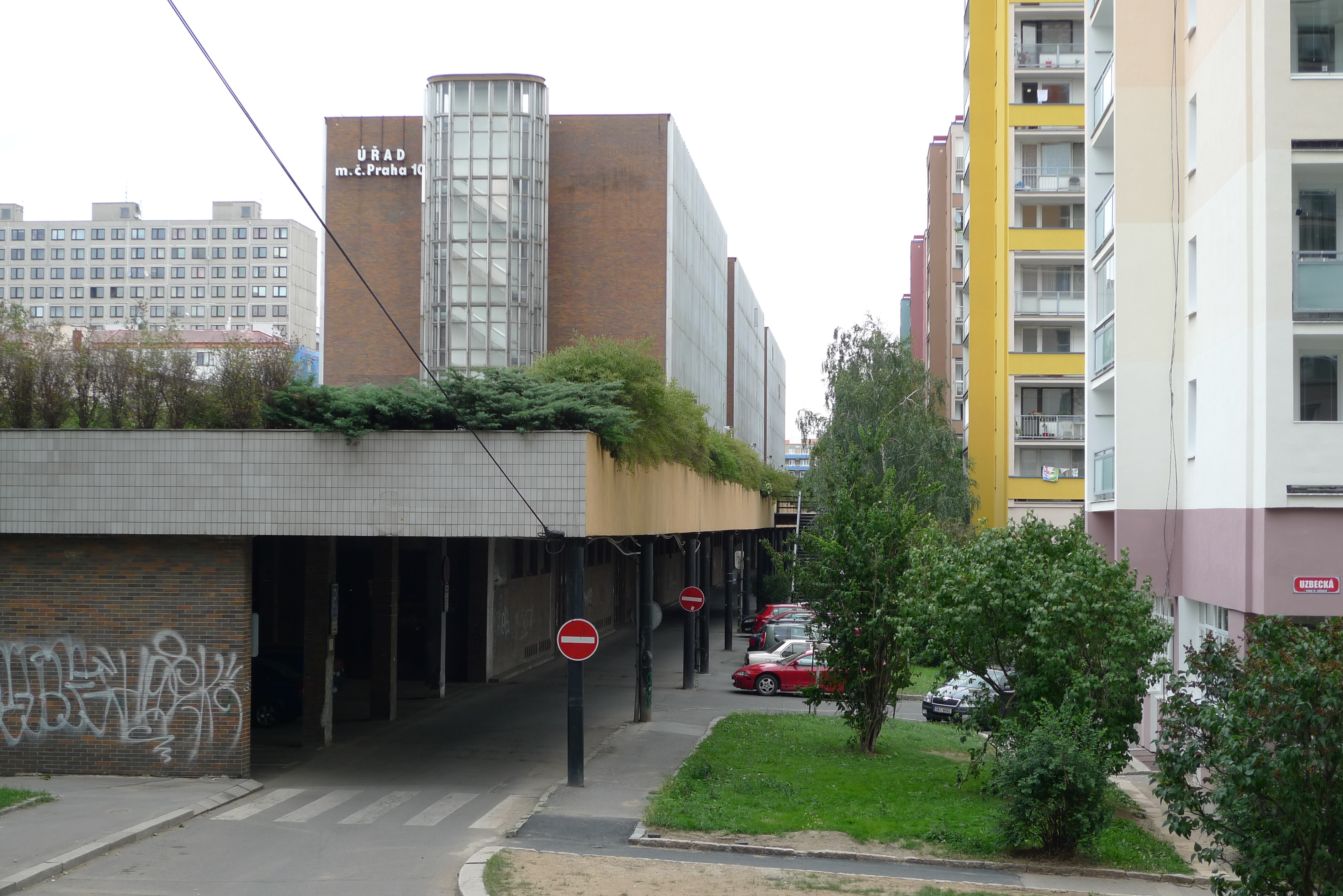 Vlasta block of flats in Prague 10, Czech Republic